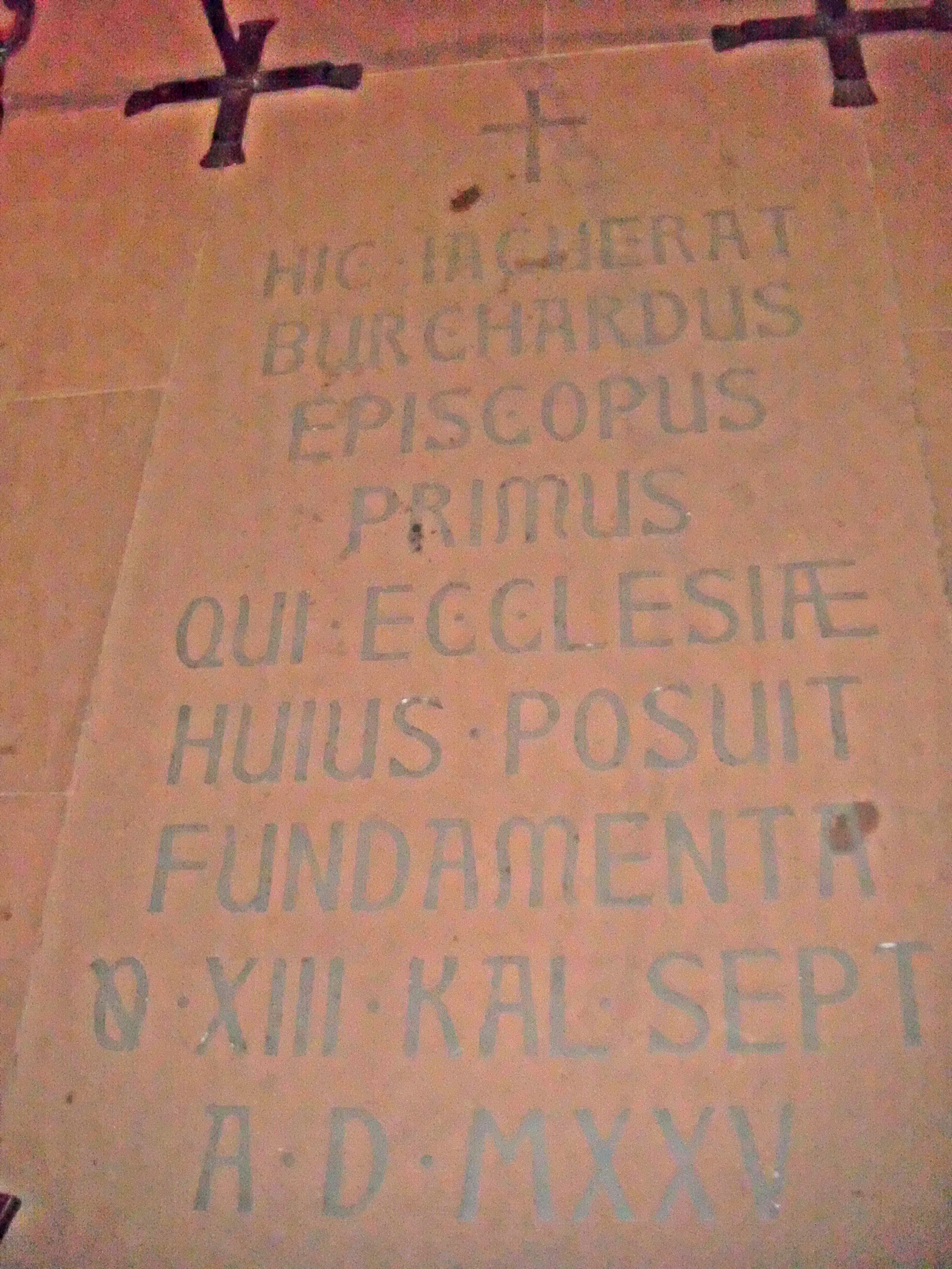 Wormser Dom, Westchor, ehemalige Grabstätte von Bischof Burchard I. (+ 1025)